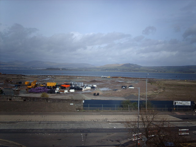 Former shipyard in Port Glasgow. Scott Lithgow's Glen yard used to produce supertankers weighing over a hundred thousand tons on this site. The ships were built in two sections (bow and stern) and then joined together in a nearby dock. The A8 in the foreground is being rerouted along the riverside as part of a retail and housing development currently under way on this site. Helensburgh and the Ardmore Peninsula can be seen across the River Clyde. This photo was taken from a moving train.